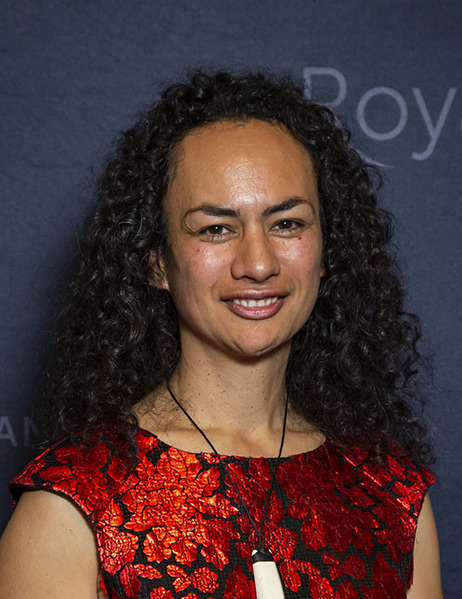 Dr Ocean Mercier (Ngāti Porou) has been awarded the Callaghan Medal from Royal Society Te Apārangi for her pioneering work to engage audiences in science and mātauranga Māori. This was at Research Honours Aotearoa, an annual awards ceremony that recognises achievements and contributions of innovators, kairangahau Māori, researchers and scholars in science, technology and humanities throughout Aotearoa New Zealand, which was held in Ōtepoti Dunedin on 17 Whiringa-ā-nuku October 2019.